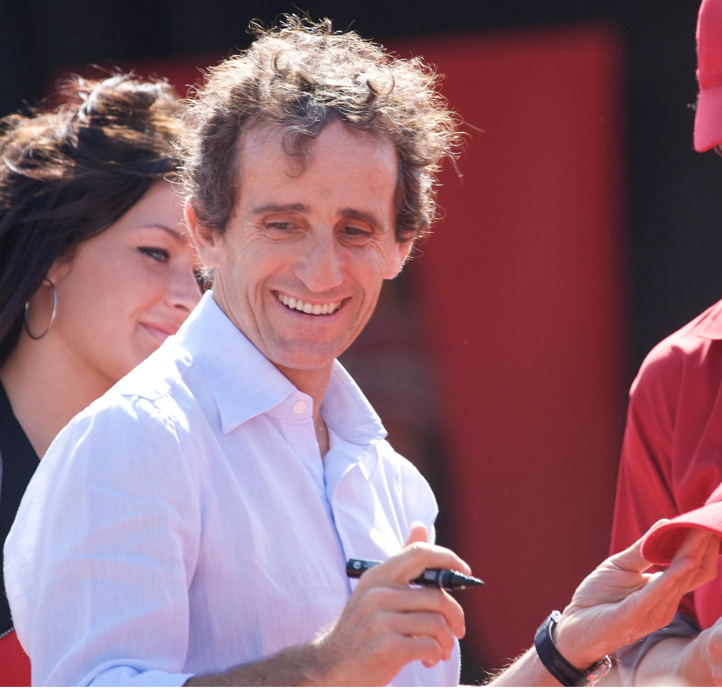 Alain Prost at the 2008 Canadian Grand Prix.